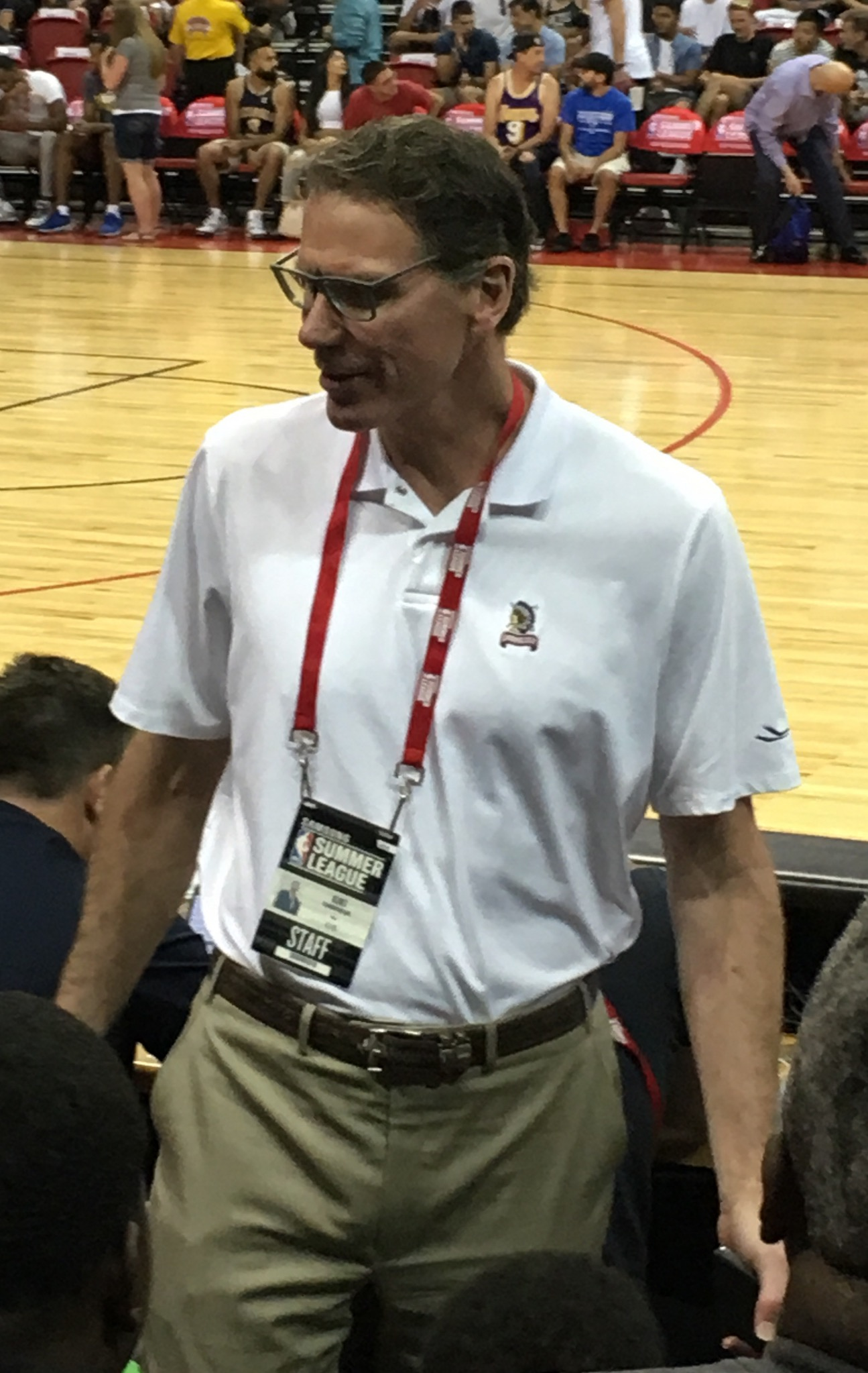 Kiki Vandeweghe at 2016 NBA Summer League